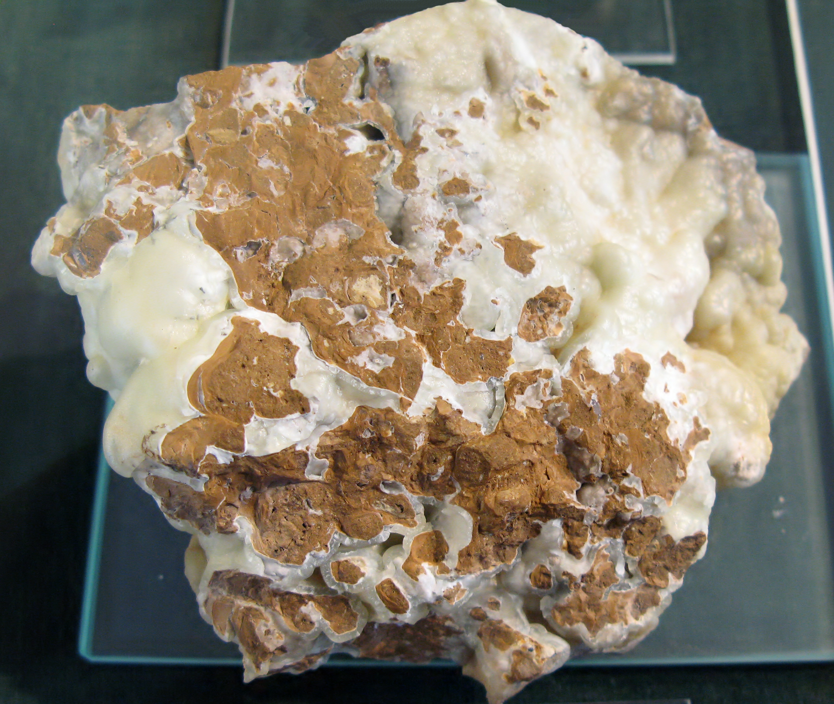 Phosphorite, graped-bunched formed - Locality: Staffel Lahngebiet, Germany - Exposed in the Mineralogical Museum, Bonn, Germany